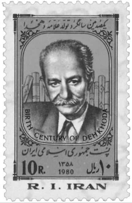 Ali-Akbar Dehkhoda Stamp